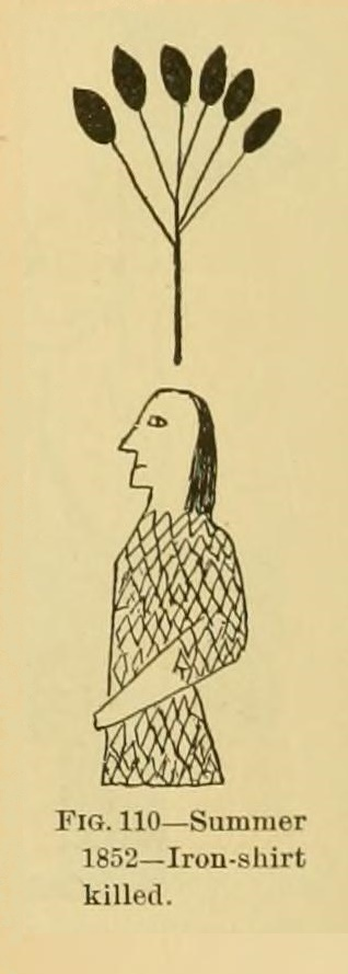 A drawing in a Kiowa winter count of Cheyenne Alights on the Cloud wearing a mailed shirt